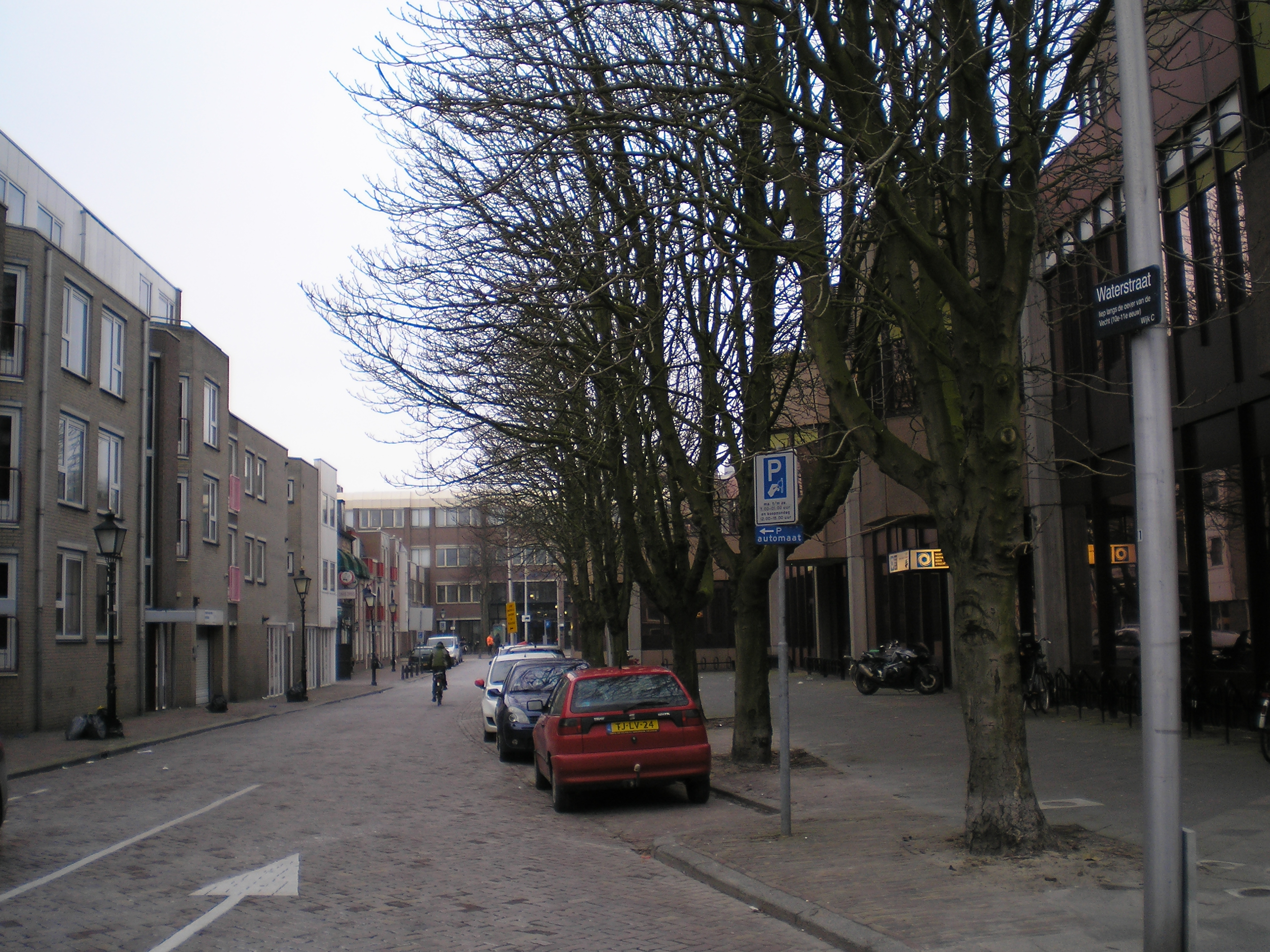 Waterstraat in Utrecht in the Netherlands